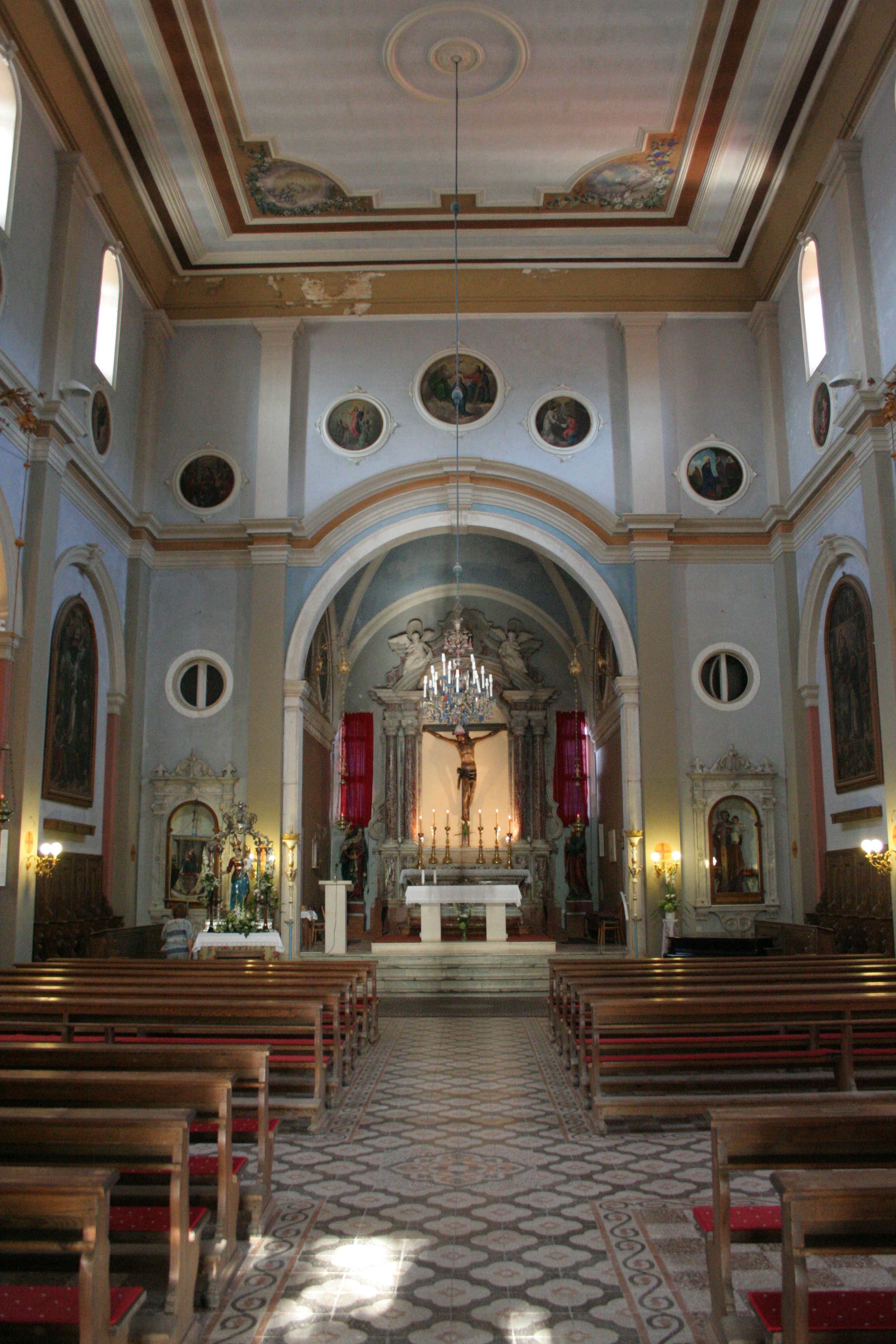 St. Peter church in Stari Grad